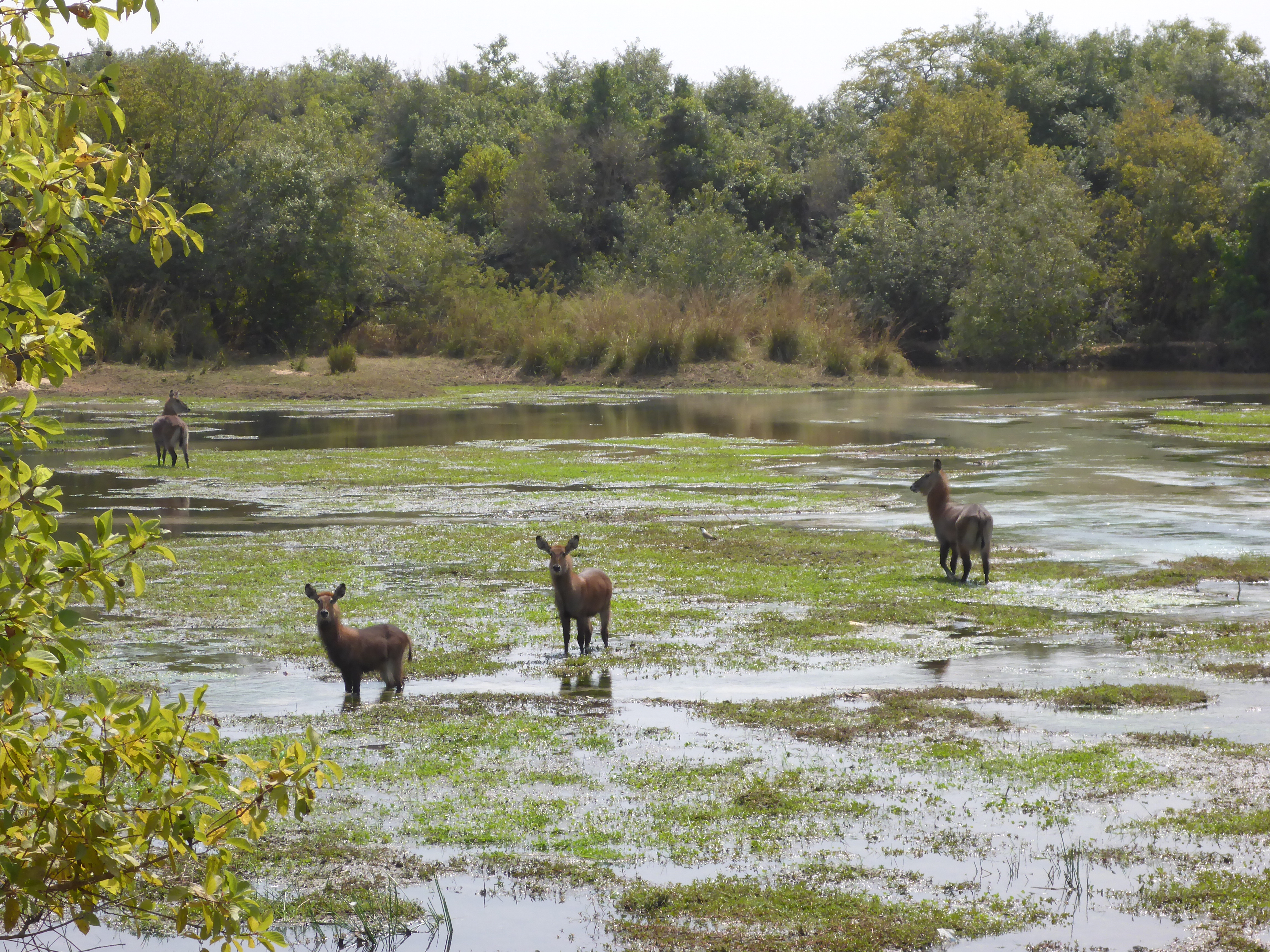 Confused and surprised at first to see humans, water bucks (Kobus ellipsiprymnus) stared in amazement forgetting they were grazing before we got there. Yankari game reserve, Bauchi State, Nigeria